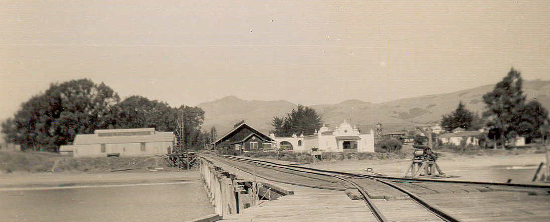 Hearst Pier, San Simeon CA. Sebastian store (center, dark wood) & Hearst warehouses and buildings on/near waterfront.